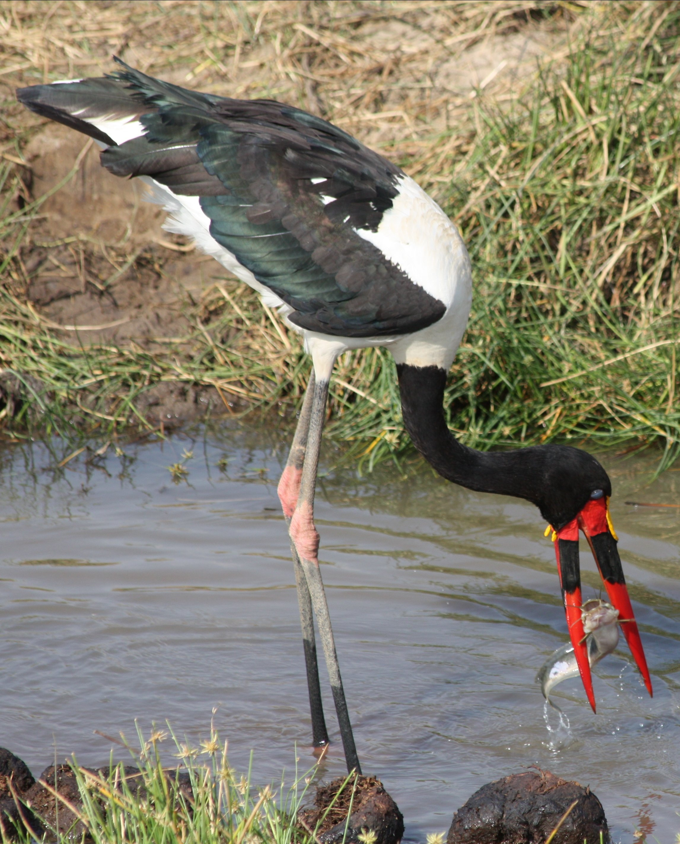 Saddle-billed Stork in Tanzania that has just caught a catfish.